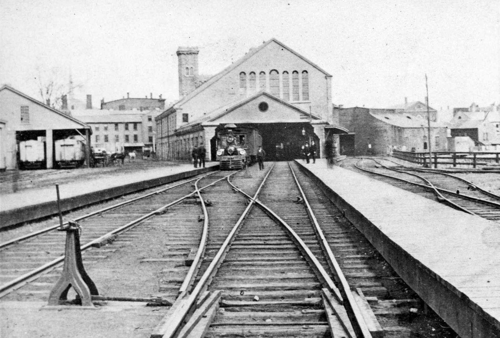 The southern end of the 1847-built Salem station, probably around 1870. This is a rare view - most surviving photographs are of the northern end with the twin stone towers.